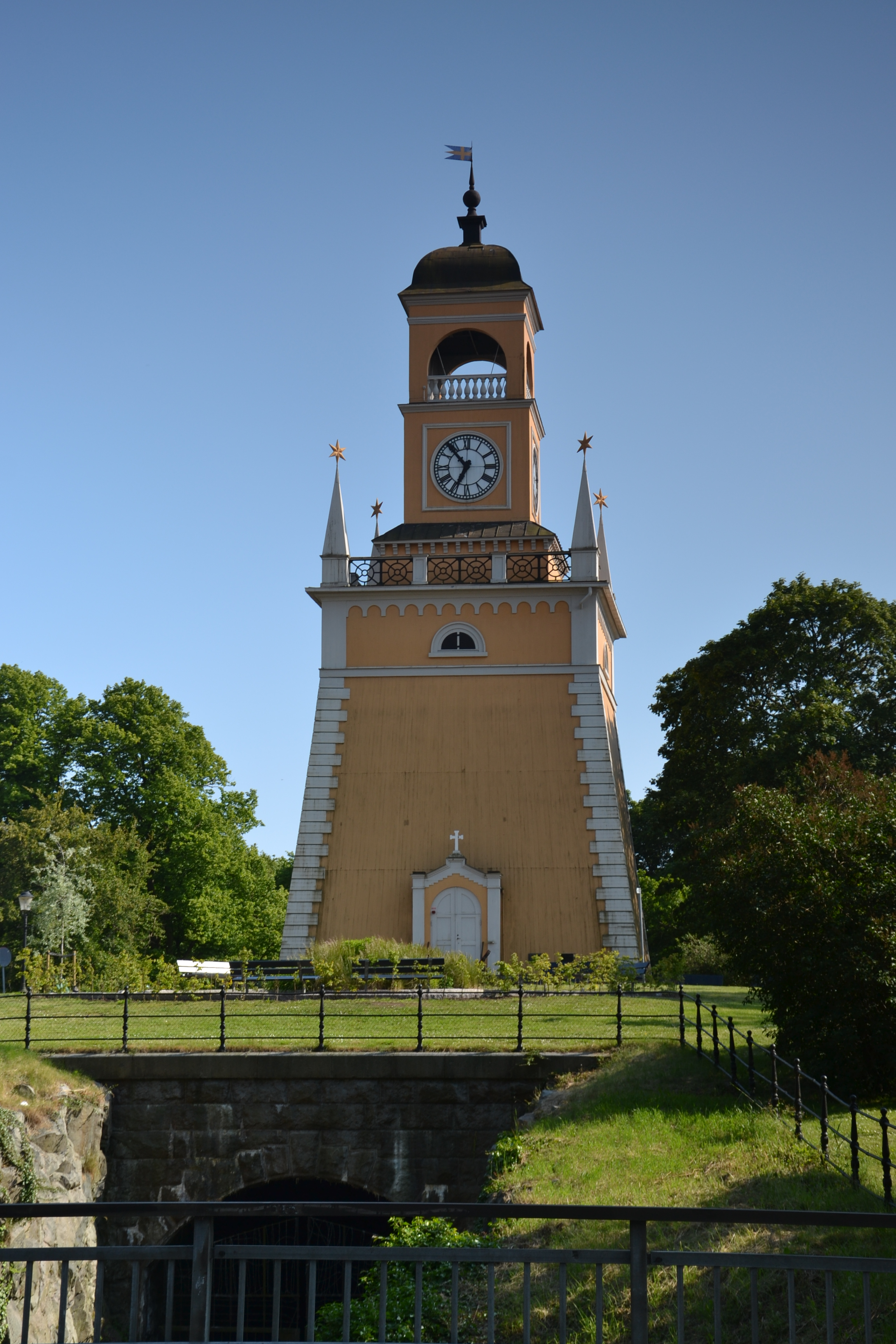 Clock tower in Karlskrona, Sweden